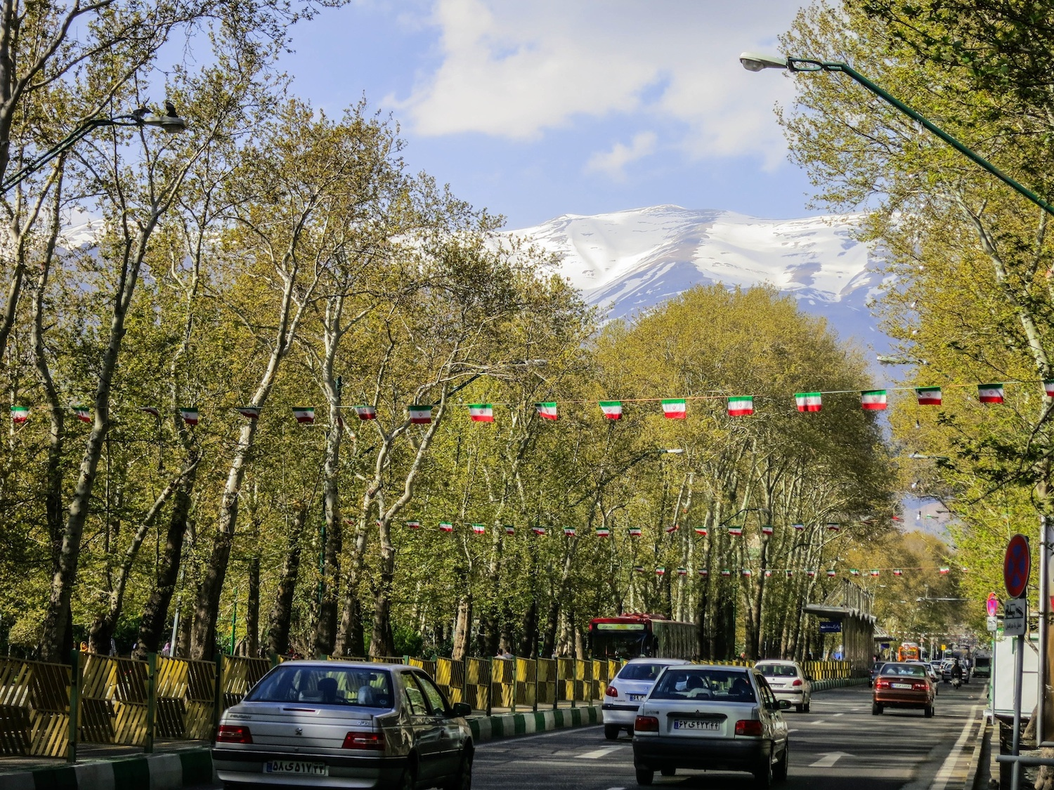 Vali Asr St in Tehran during Nowruz / Iranian New Year